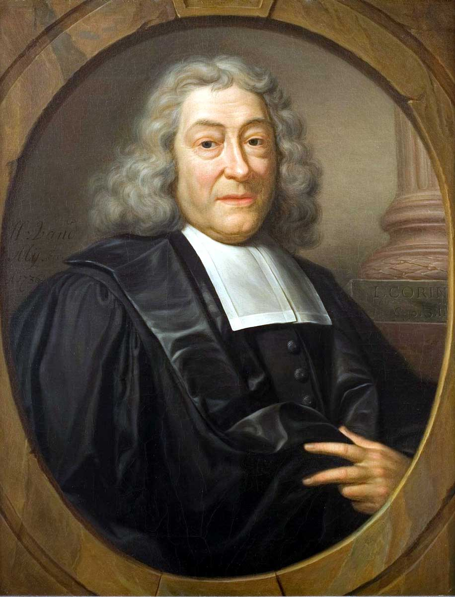 Franciscus Fabricius also: Fabritius (1663-1738) Dutch Reformed theologian